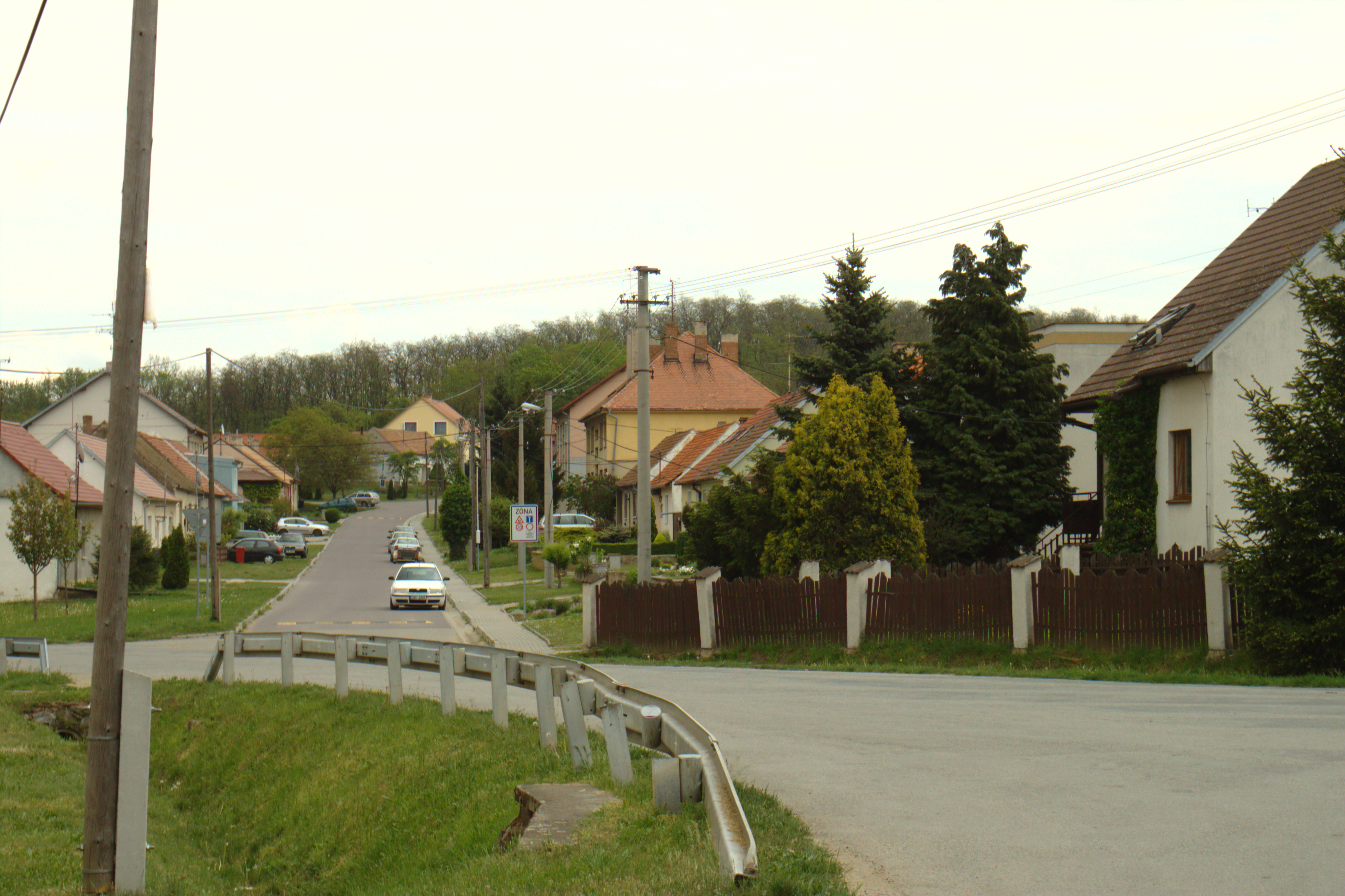 A road in the village of Oleksovice, South Moravian Region, CZ